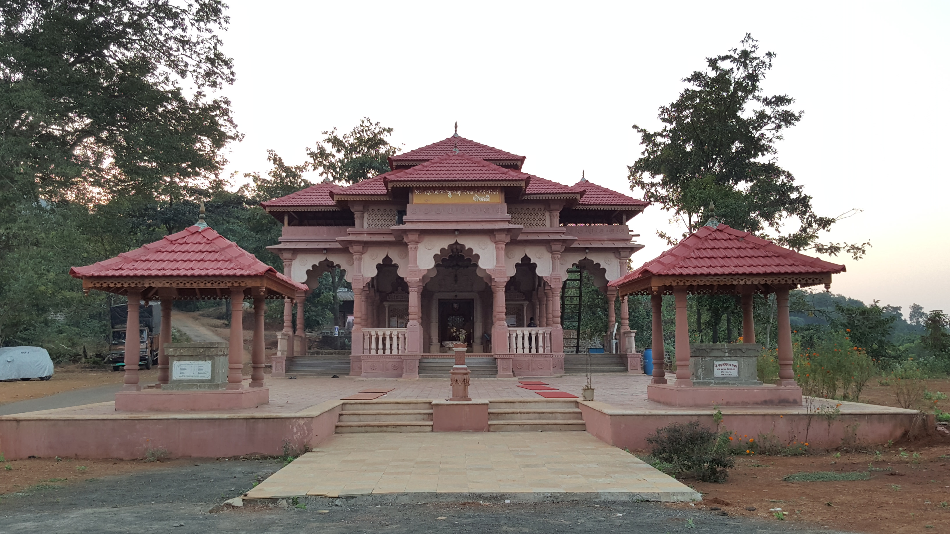 Aai Mahakali Temple , Pawarwadi